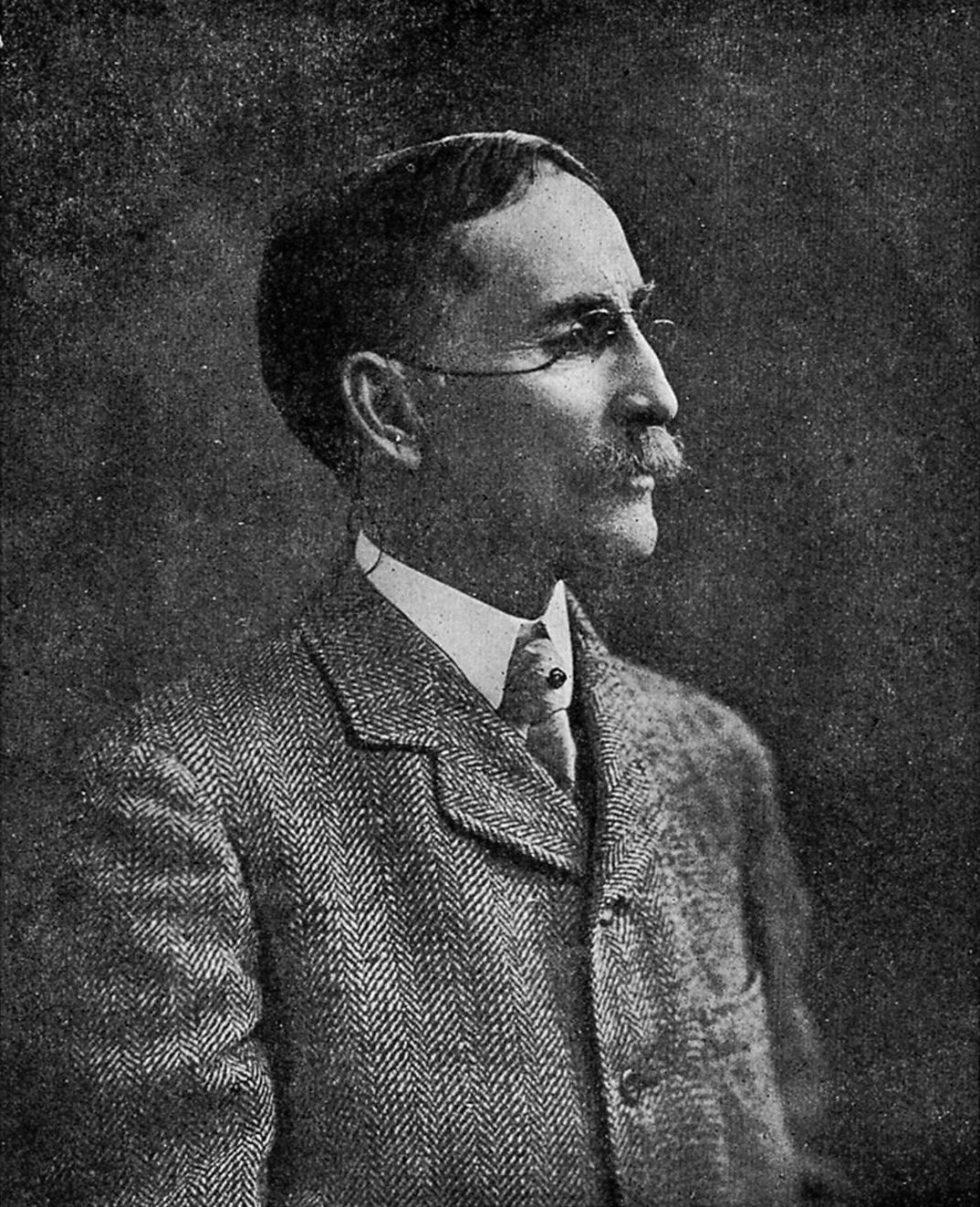 Photograph of Birge Harrison, artist.